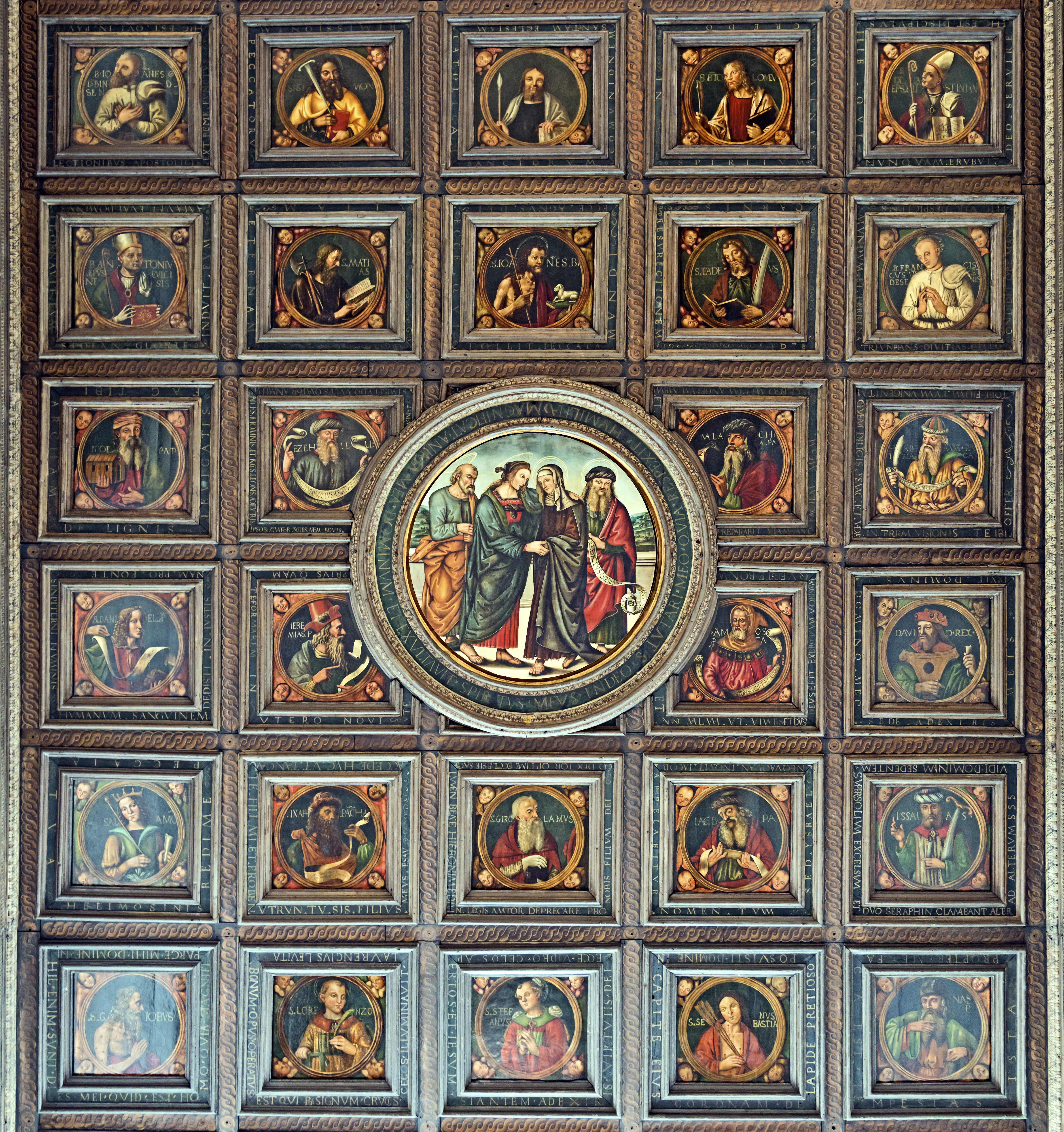 Santa Maria della Visitazione in Venice. The ceiling of the nave is the work most remarkable of the church. It is a coffered ceiling; This type of ceiling is rare in Venice; it consists of 58 square meters of 1.30 element aside. Each element is centered on a painting of the saints of the Old and New Testament. In the center is the main draw round (diameter 2.50 meters) illustrates "the meeting between the young Mary and her cousin Elizabeth." The paintings date back to the sixteenth century and are the work of Pietro Paolo Agabito and his workshop.